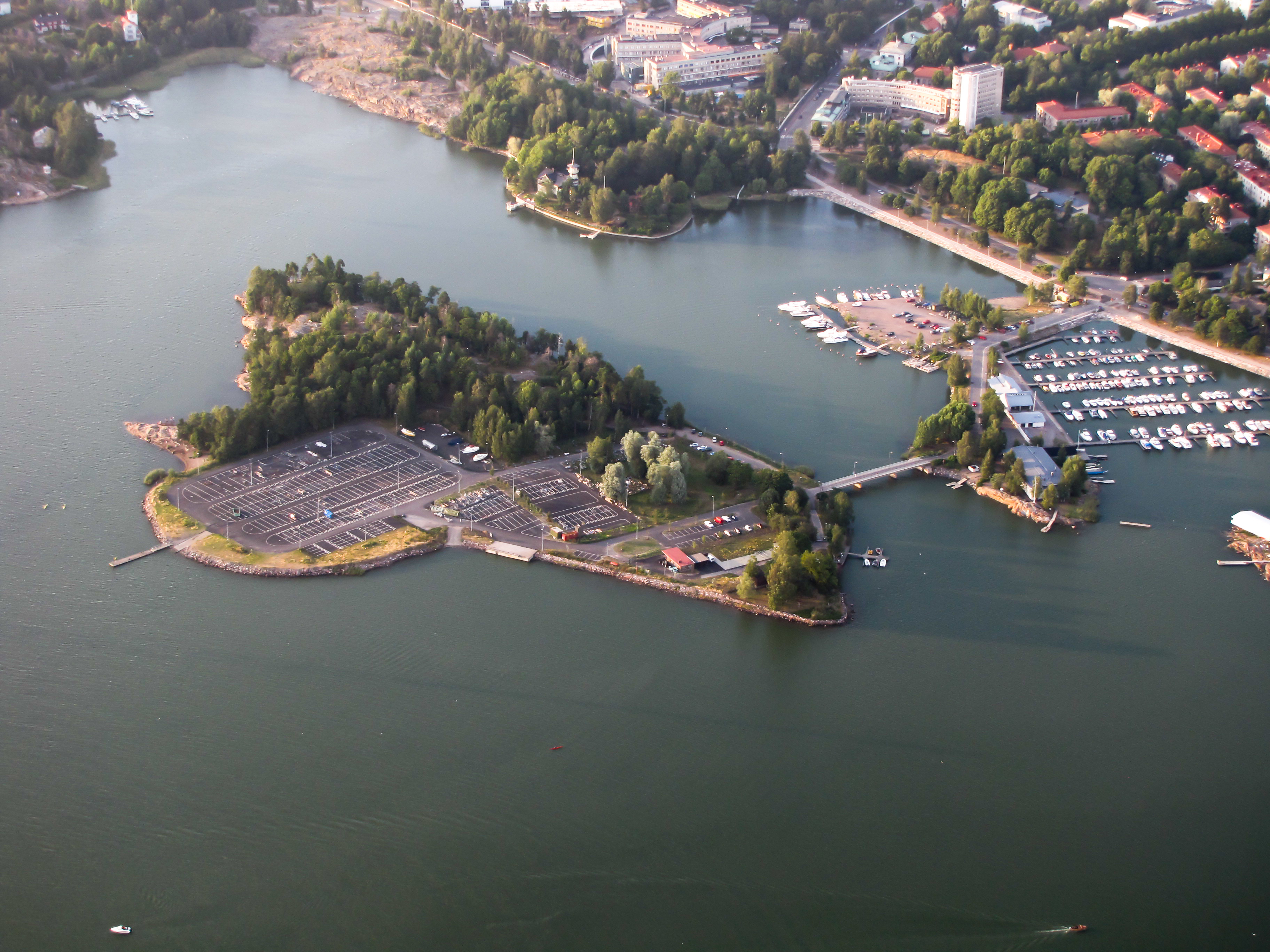 Rajasaari island photographed from a hot air balloon.